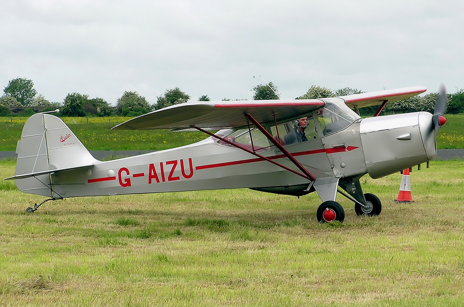 Auster 5J1 Autocrat of 1946 (UK registration G-AIZU) at Keevil Airfield, Wiltshire, England. Photographed by Adrian Pingstone on May 27th 2006 and released to the public domain.